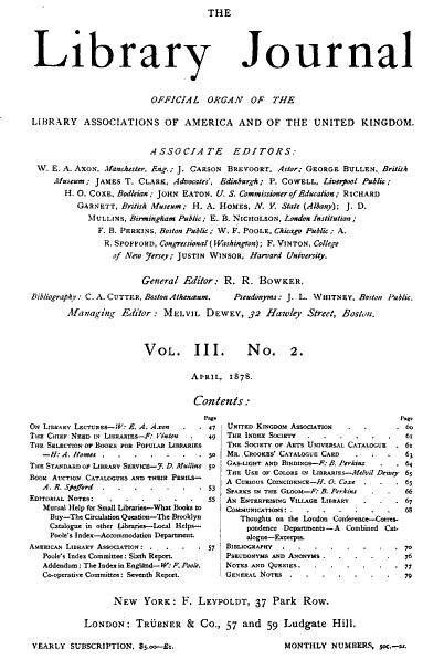 Library Journal v.3, no.2, April 1878